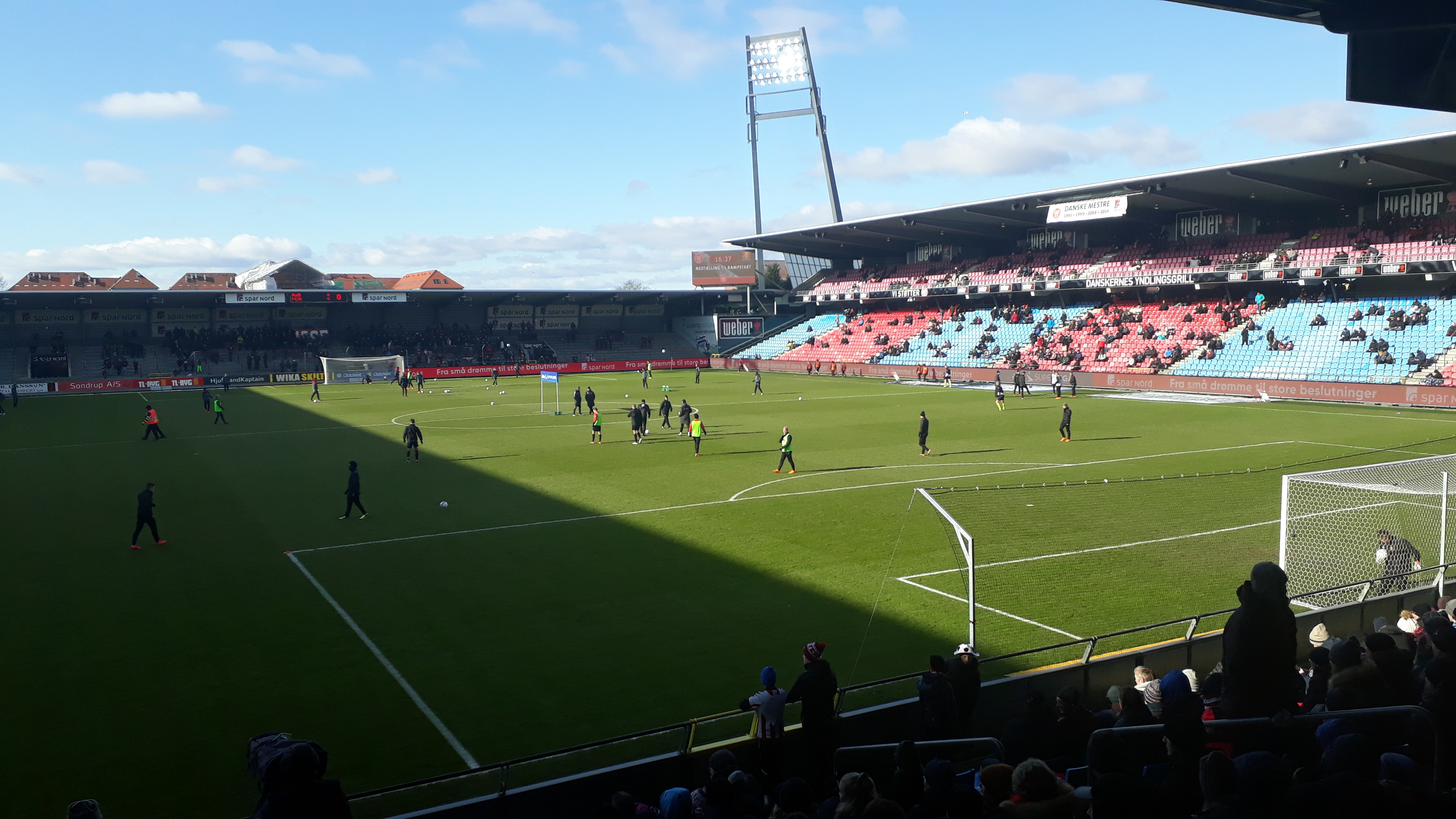 Football match AaB-FCN (Denmark) (preparations)